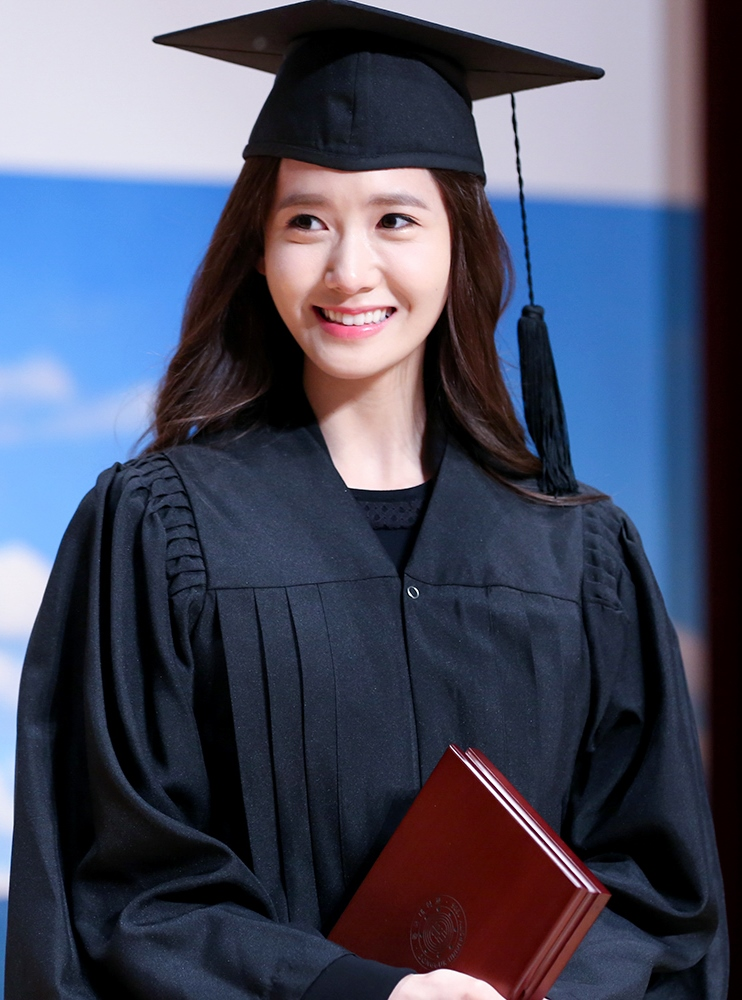 YoonA at Dongguk University Graduation Ceremony on February 24, 2015.